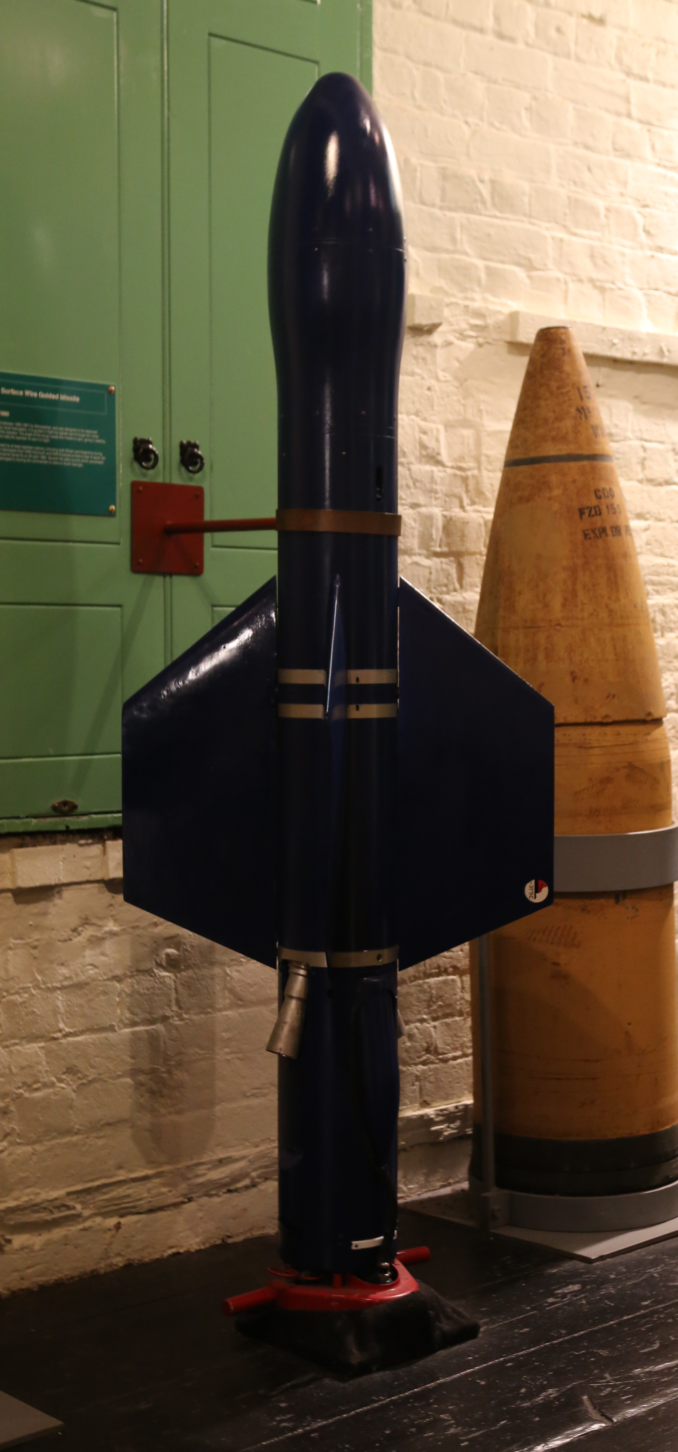 Photo of an AS.12 air-to-surface missile